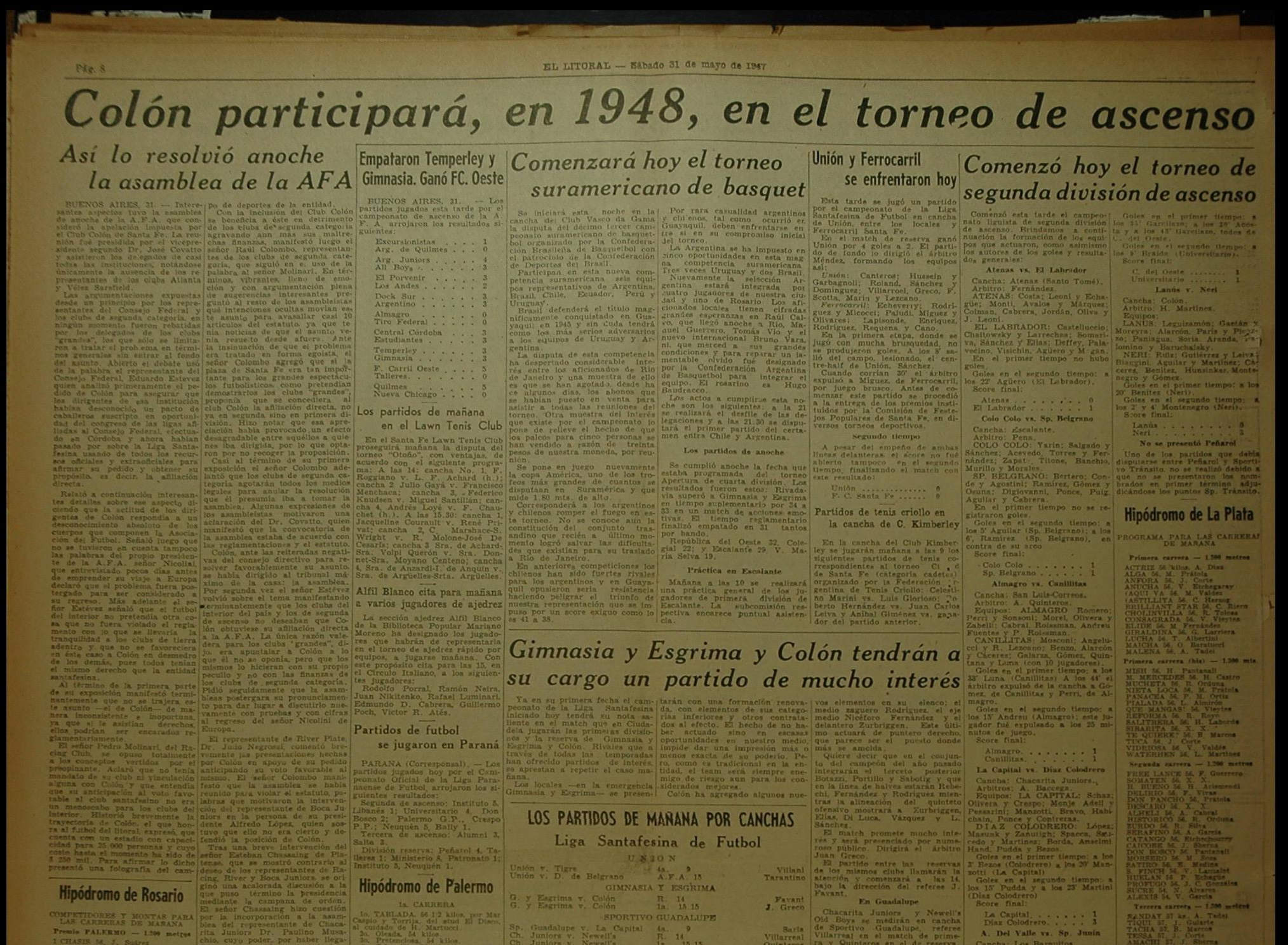 Colón participará, en 1948, en el torneo de ascenso